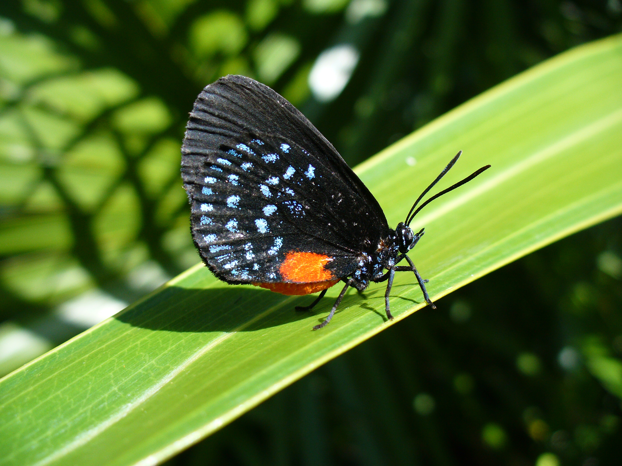 Fairchild Tropical Botanic Garden, Miami, Florida, USA. Photo by T.H. Chow. Larvae feed on native and exotic Zamia spp.